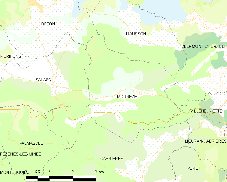 Map commune FR insee code 34175.png - Mourèze